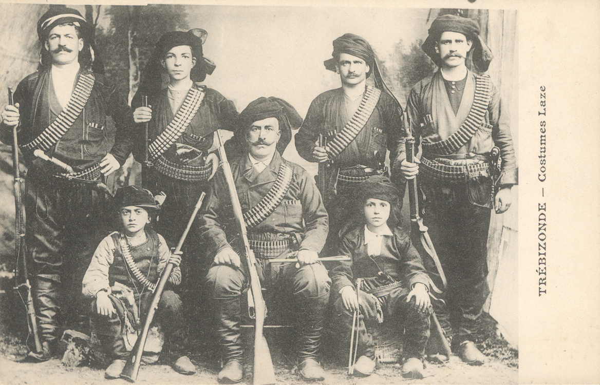 Laz men from Trabzon, 1910's